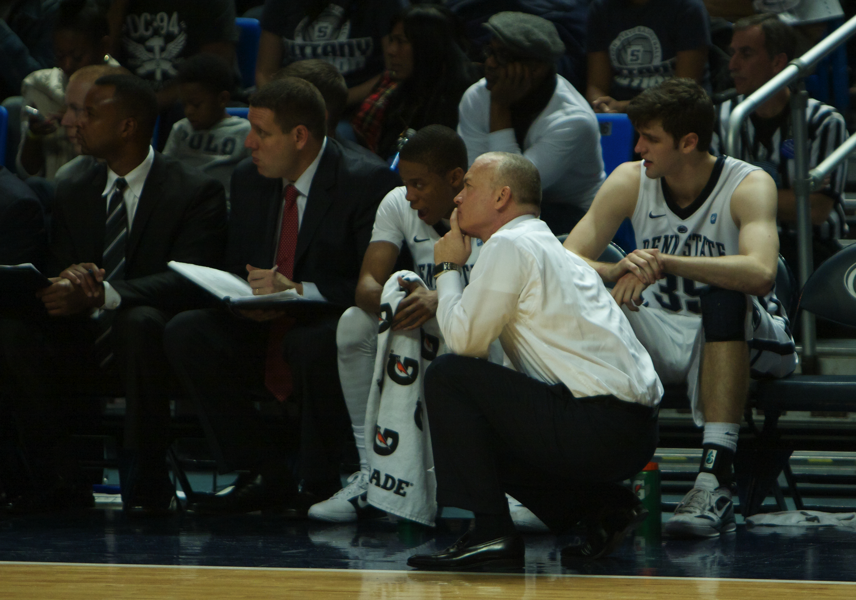 Patrick Chambers watches his team at the other end of the floor during the 1st half of Penn State's first game of the 2011-12 season versus the Hartford Hawks. Penn State won the contest 70-55.